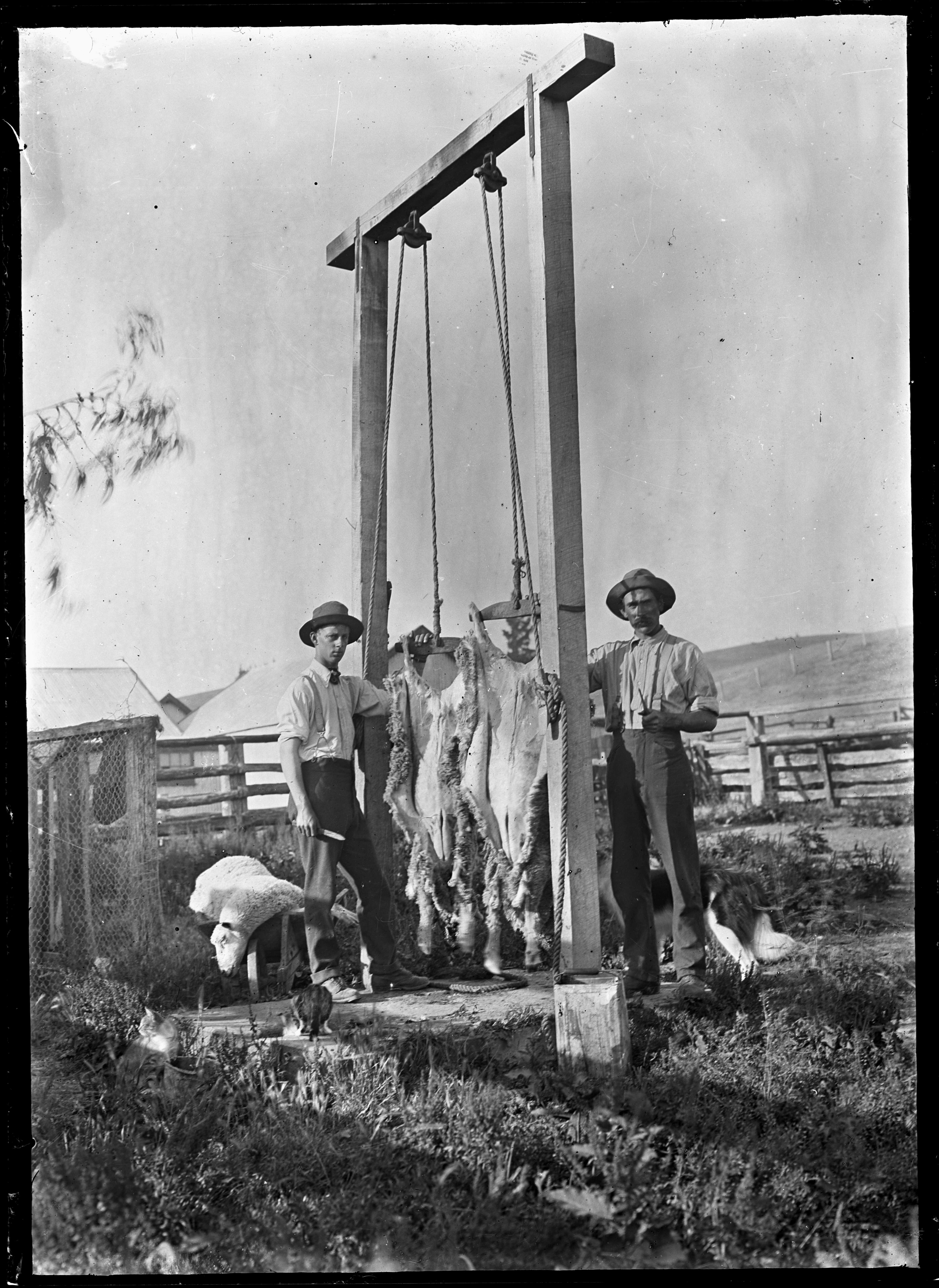 An outdoor abattoir. Two men have a couple of sheep carcasses strung up for skinning and butchering, at the Mendip Hills sheep farm (owned by Andrew William Rutherford). There is a third carcase in a wheelbarrow. Photograph taken by Albert Percy Godber in 1917.